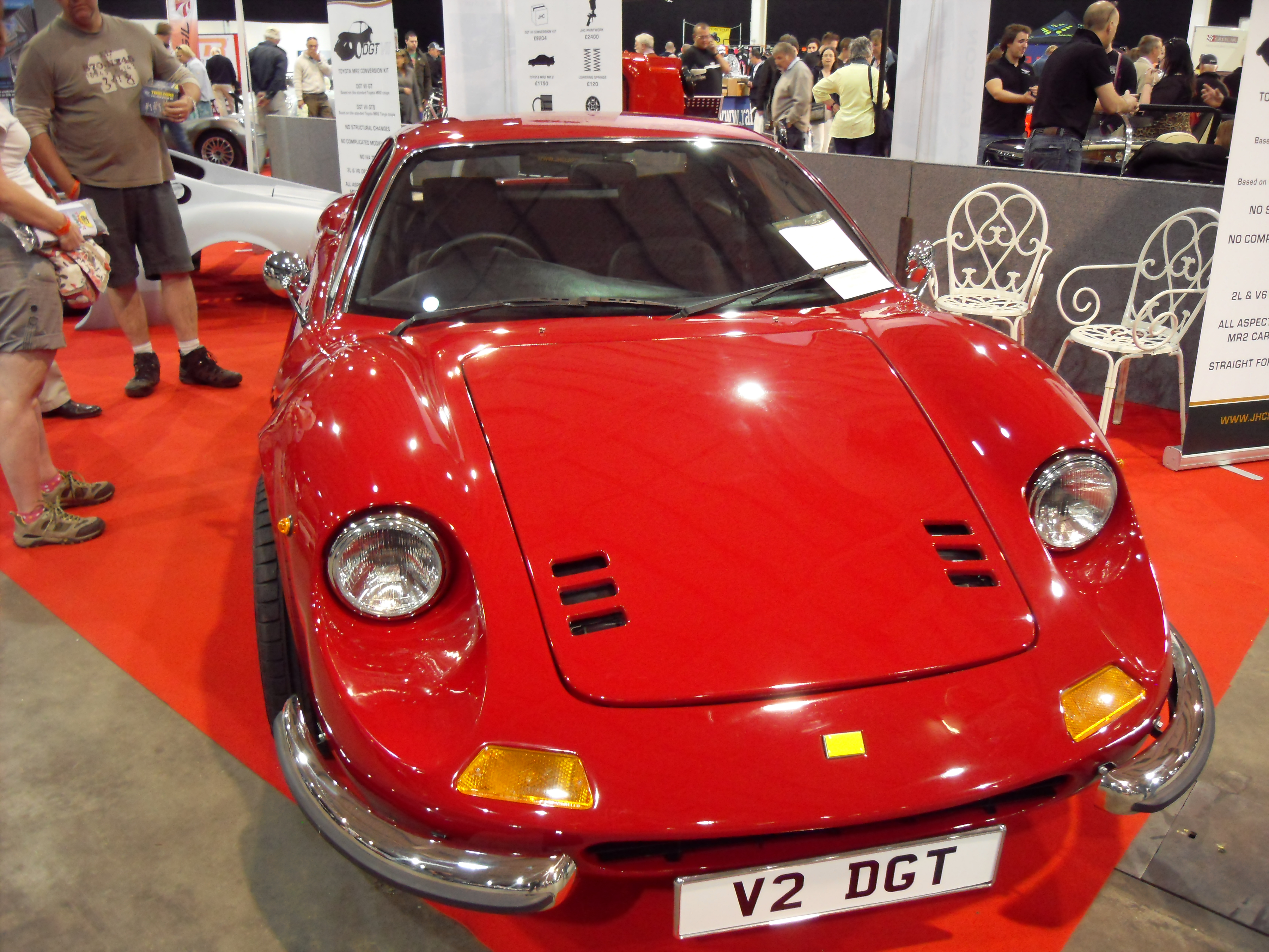 National Kit Car Show Stoneleigh 2011